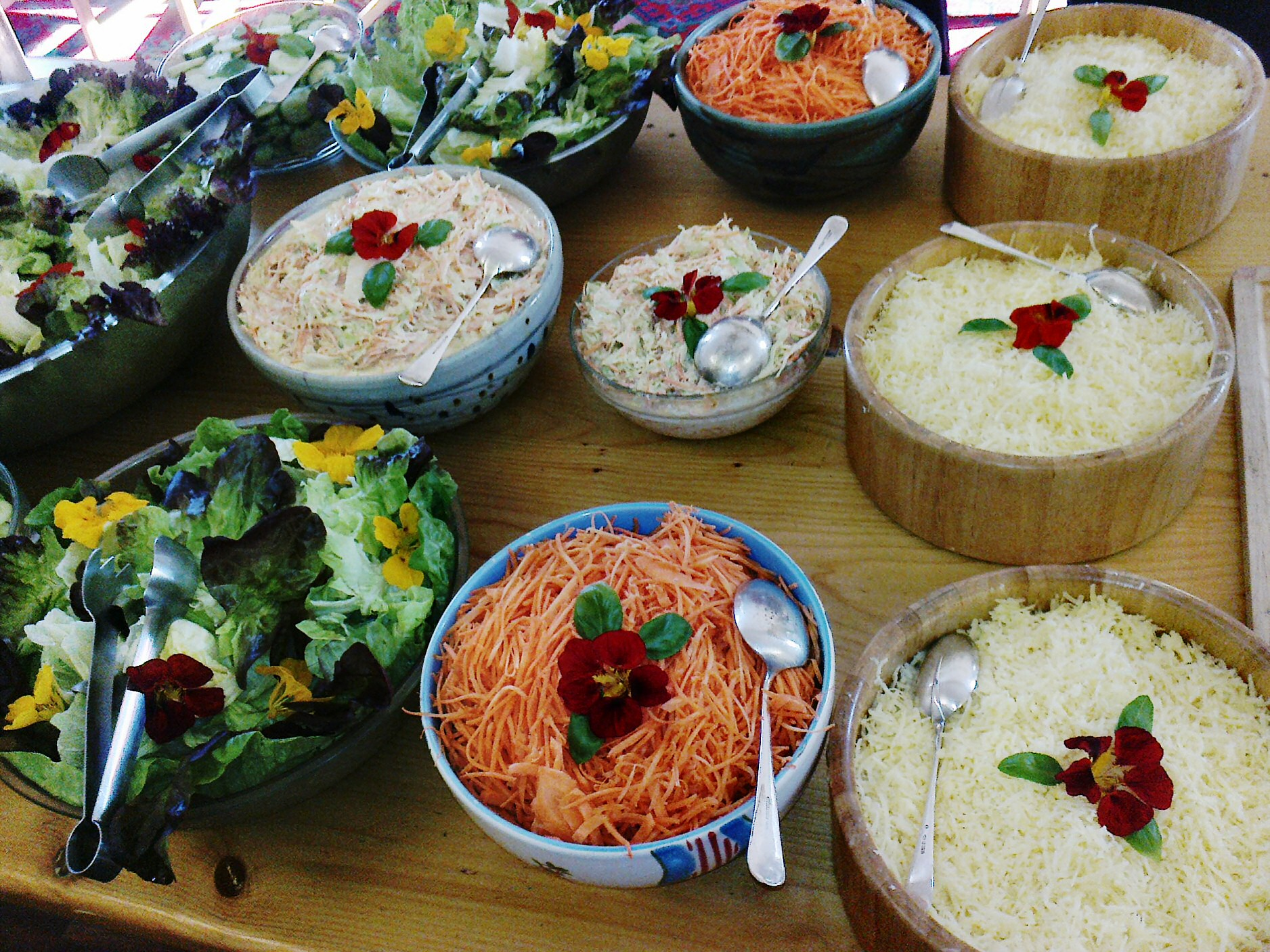 The salads at Findhorn Foundation Cluny Hill are prepared beautifully, like works of art.